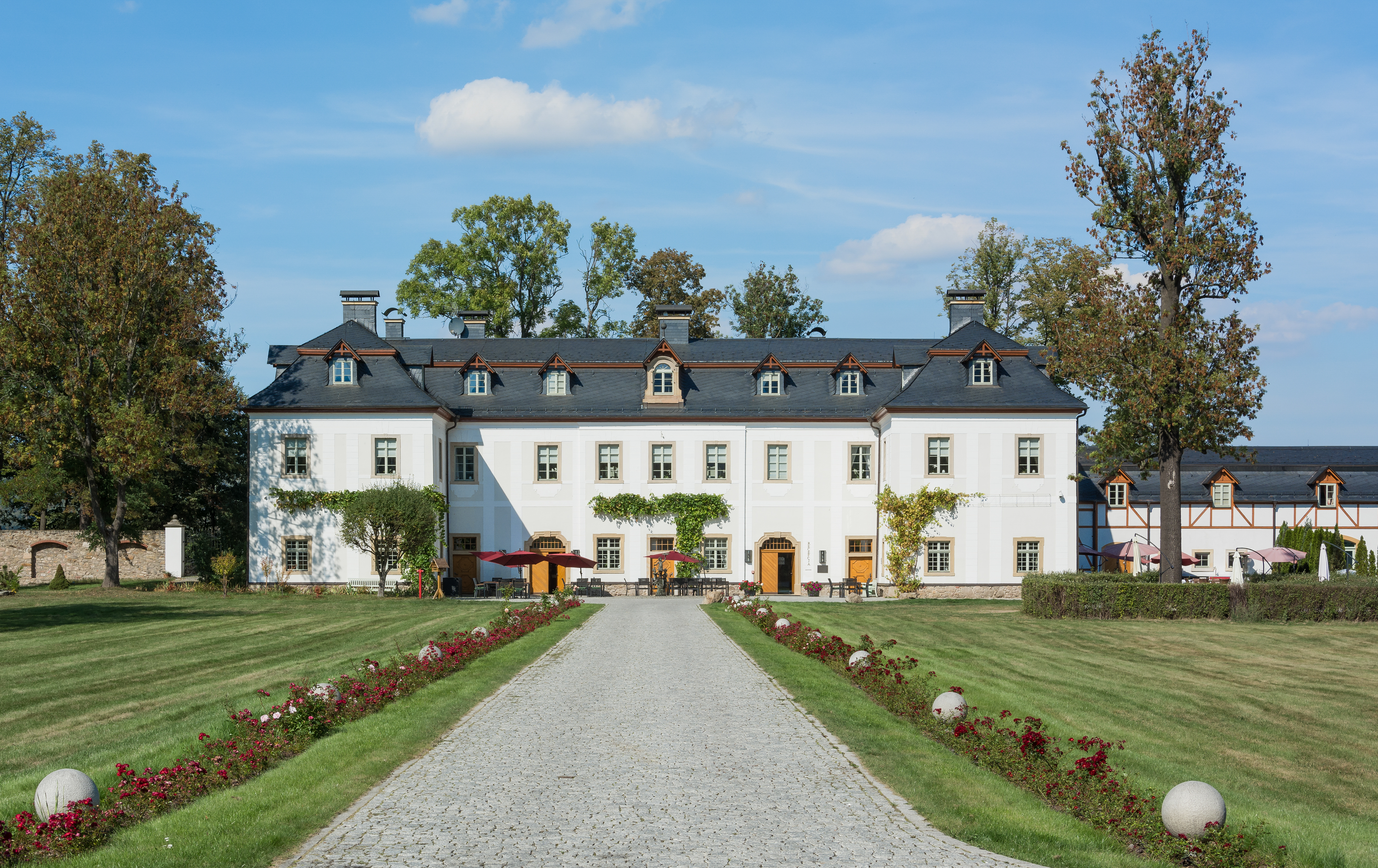 Palace in Pakoszów Wikidata has entry Q11815010 with data related to this item.